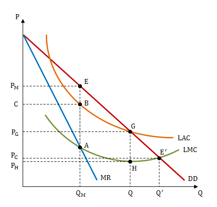 Natural Monopoly